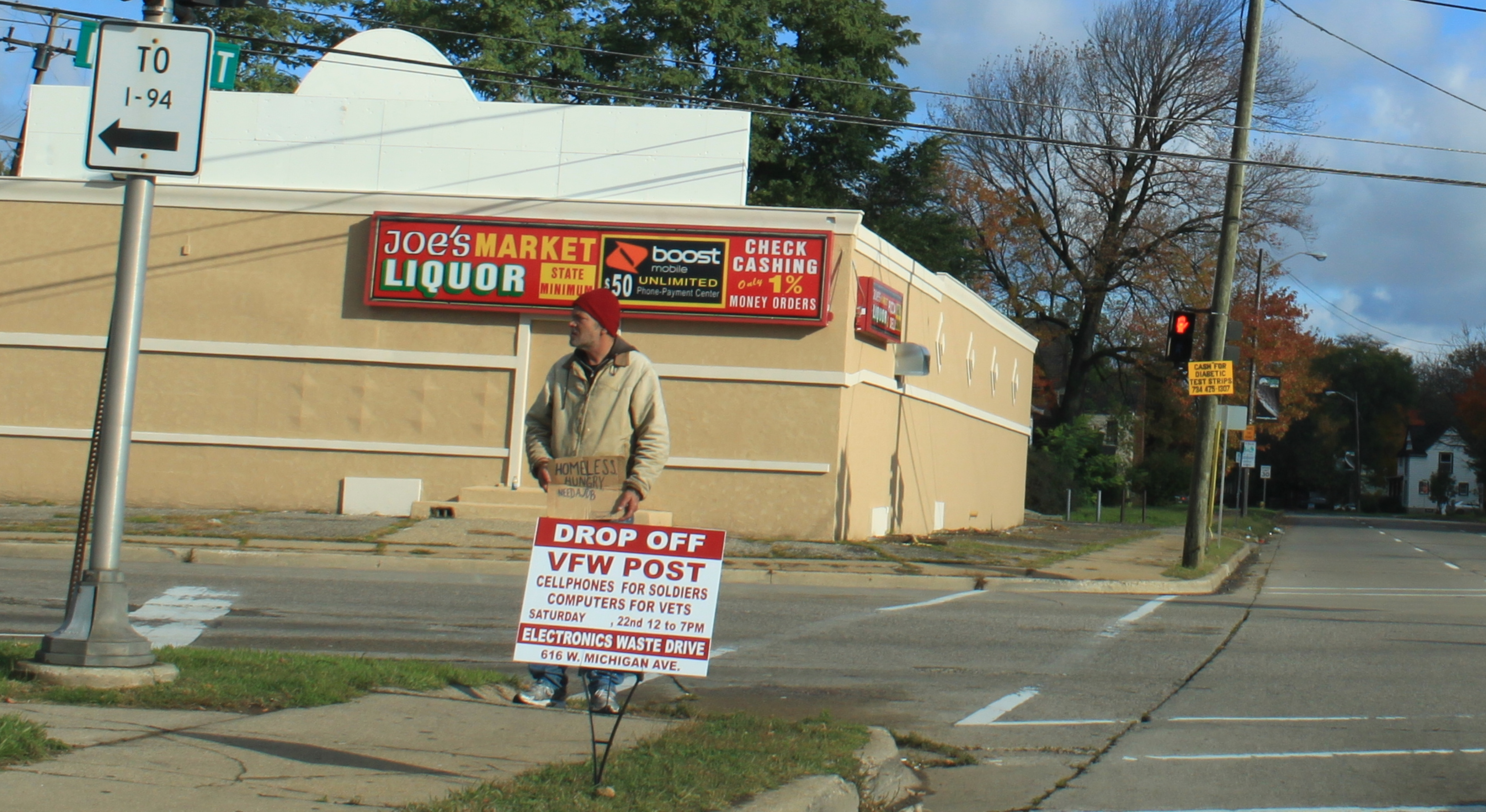 Homeless man soliciting employment, intersection of South Huron & Harriet Street, Ypsilanti, Michigan